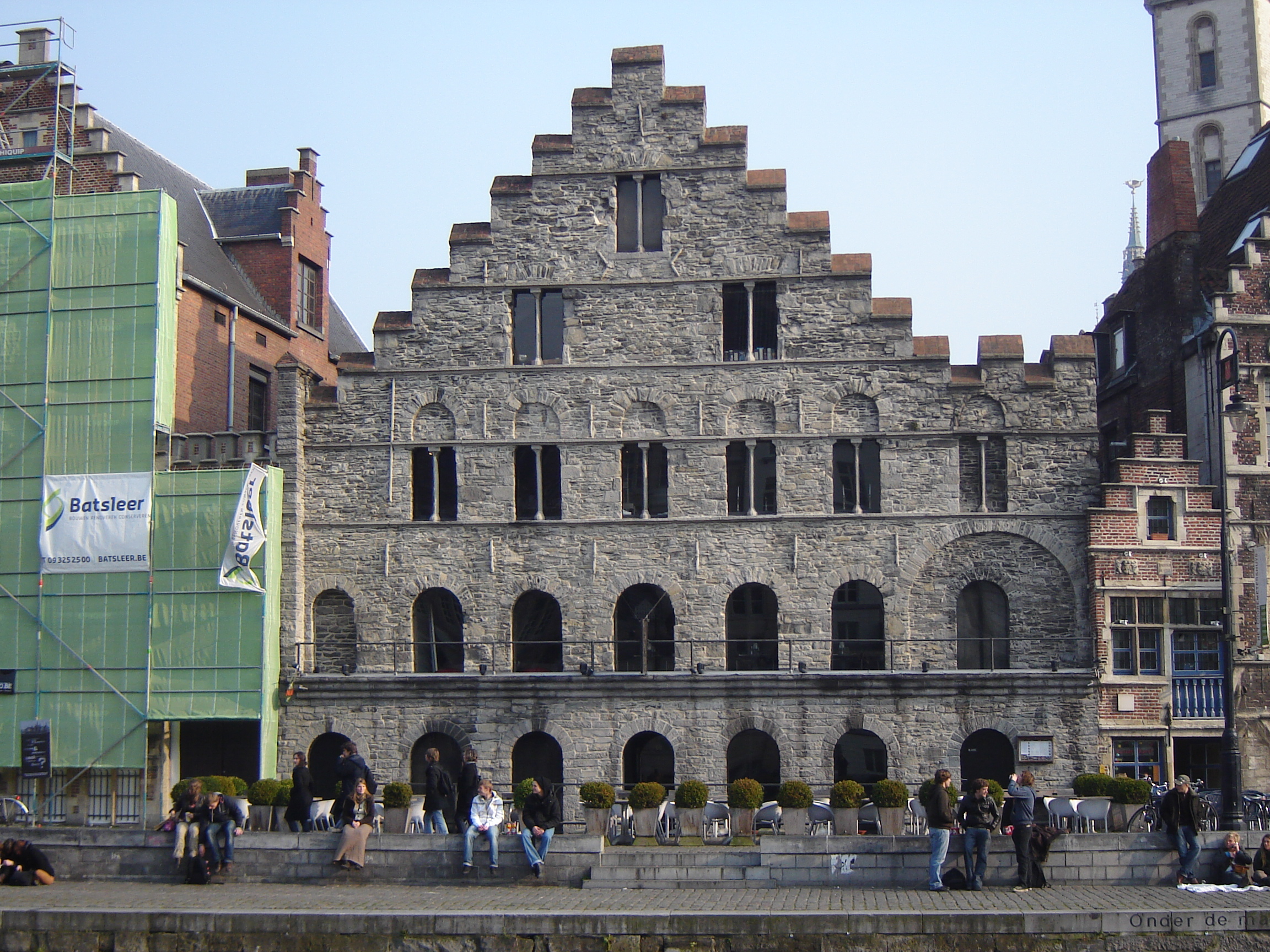 Korenstapelhuis (old corn warehouse) or "Spijker" at the Graslei in Gent. Nowadays known as restaurant 'Belga Queen'. Gent, East Flanders, Belgium